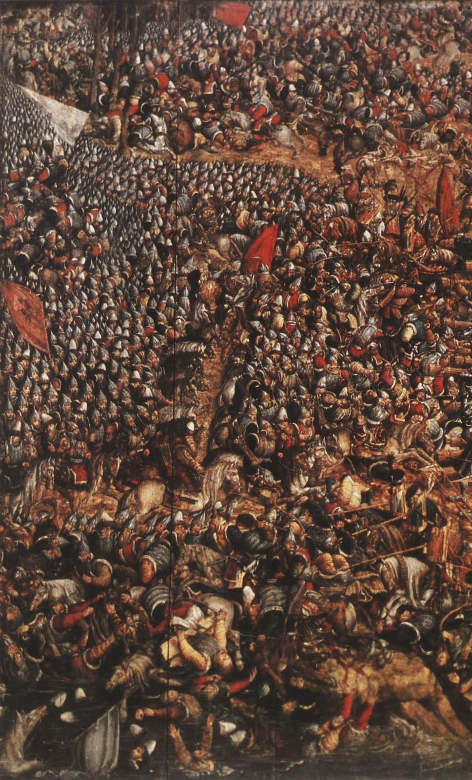 Battle of Orsza - left side Oil on wood, 165x260 (whole painting), National Museum in Warsaw